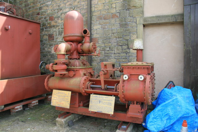 Fire pump, Bancroft Mill This is a Mather and Platt "Underwriter" steam fire pump of 1890. it was used on a sprinkler system in a textile mill at Gargrave until 1975 and was then donated by Johnson & Johnson to the Yorkshire Dales Railway at Embsay. It subsequently gravitated to Bancroft Mill and is displayed in the mill yard.